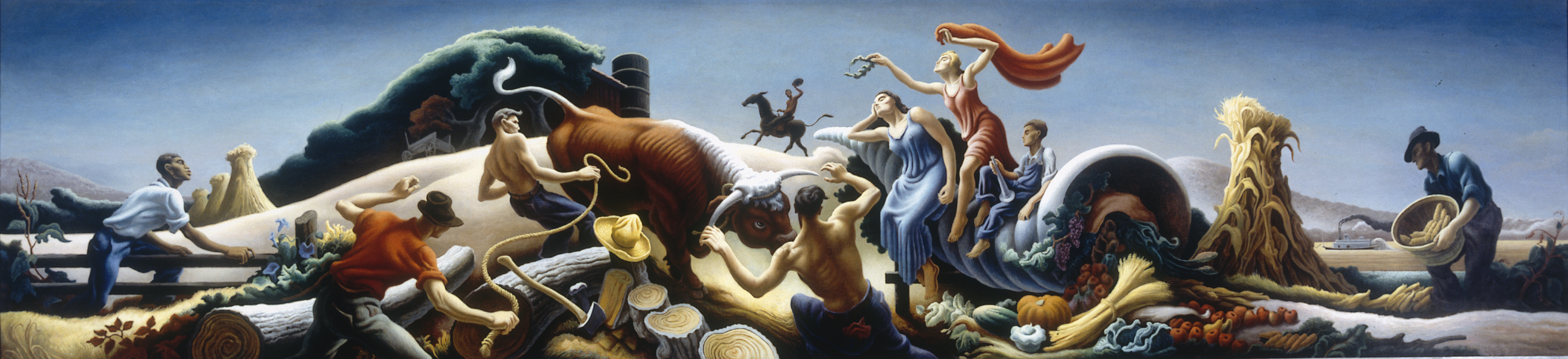 The painting Achelous and Hercules by Thomas Hart Benton. It was originally painted in 1947 for Harzfeld's, a department store in Kansas City, and was donated to the Smithsonian when the store closed in the 1980s.